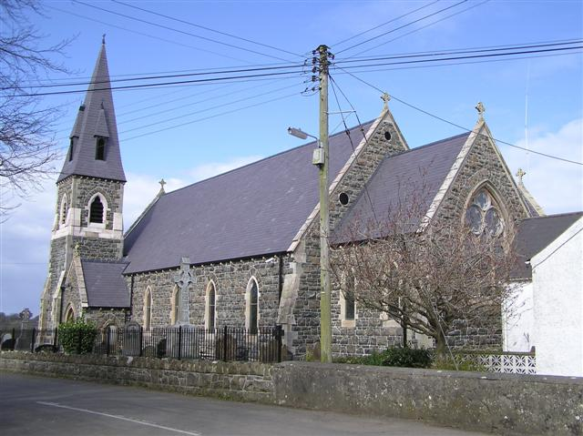 Glenavy RC Church It is located on Chapel Road near Ballynacricket.